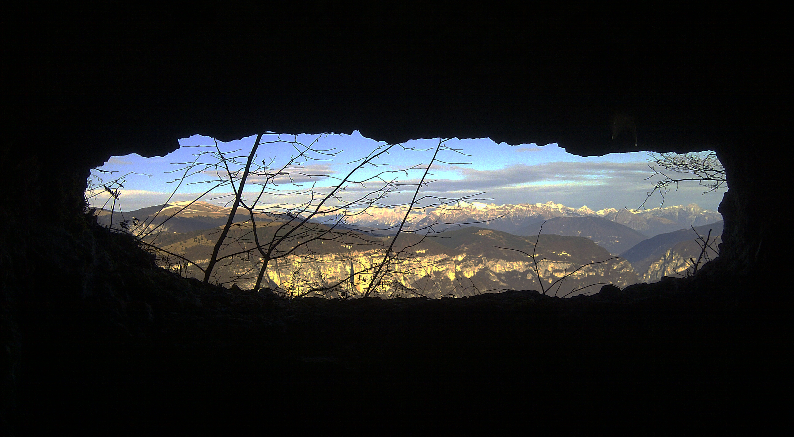 view from a Great War cave along the stroll